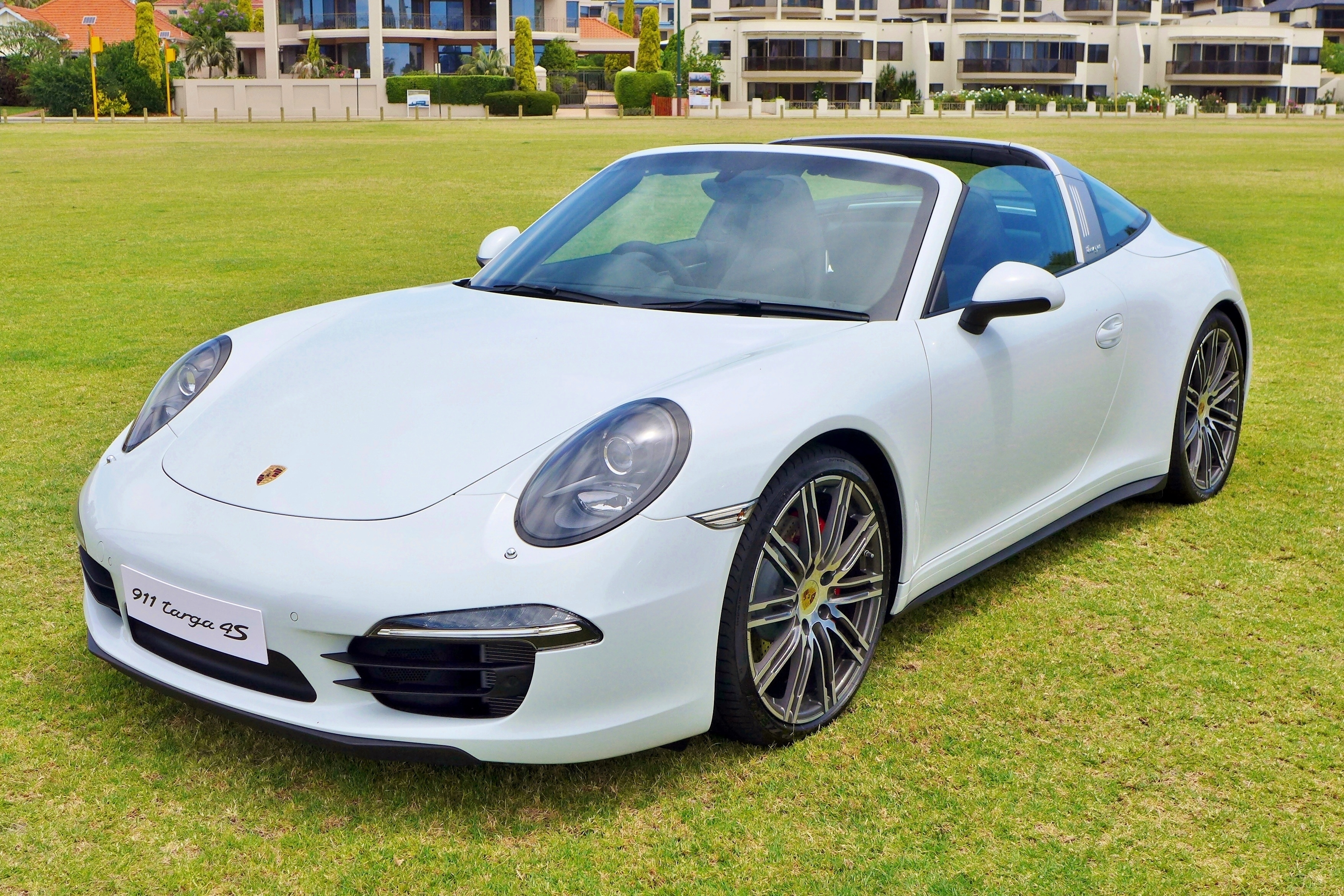 A 2014 Porsche 991 Targa 4S, on display at the Porsche Club of Western Australia annual concours, Sir James Mitchell Park, South Perth, WA, Australia.